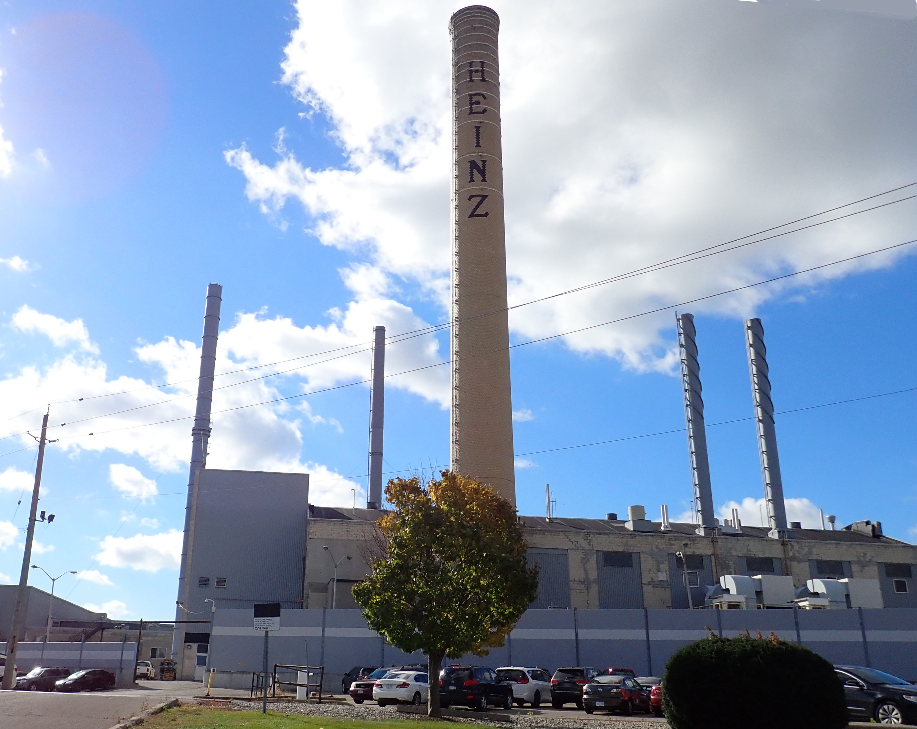 Highbury Canco Leamington Tomato processing plant